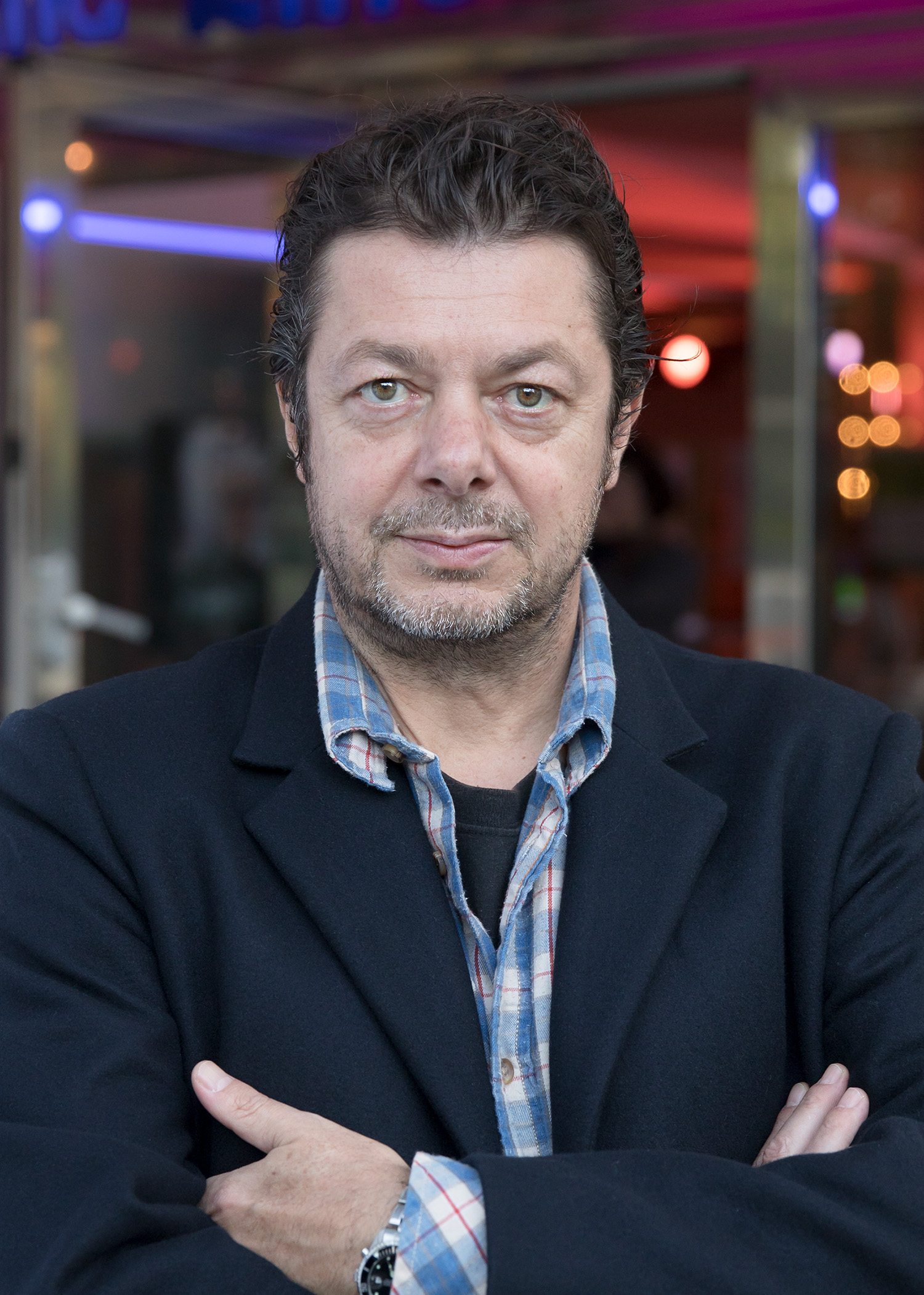 Thomas Arslan (Helle Nächte) at the Vienna International Film Festival 2017 (Gartenbaukino, Vienna, Austria).